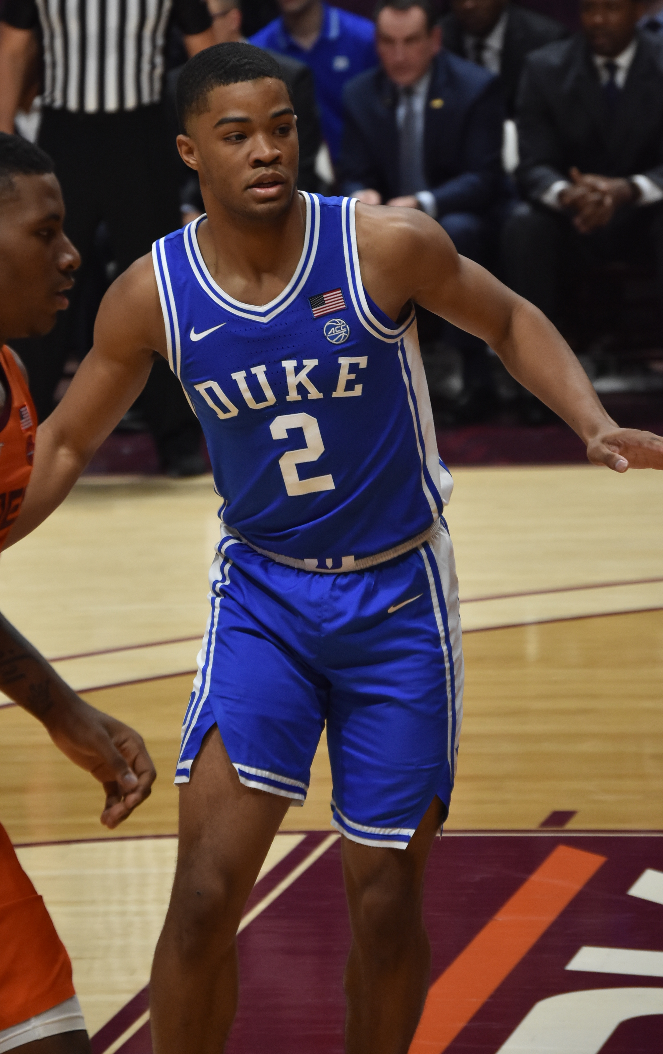 Cassius Stanley puts on Work against the Hokies at Cassell Coliseum.